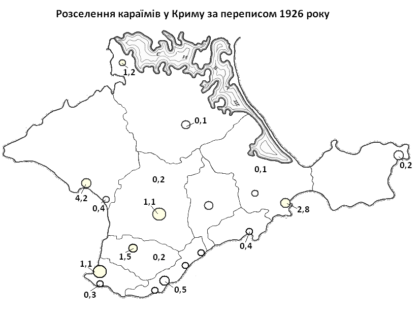 Percentage of karaites in Crimea according to 1926 census